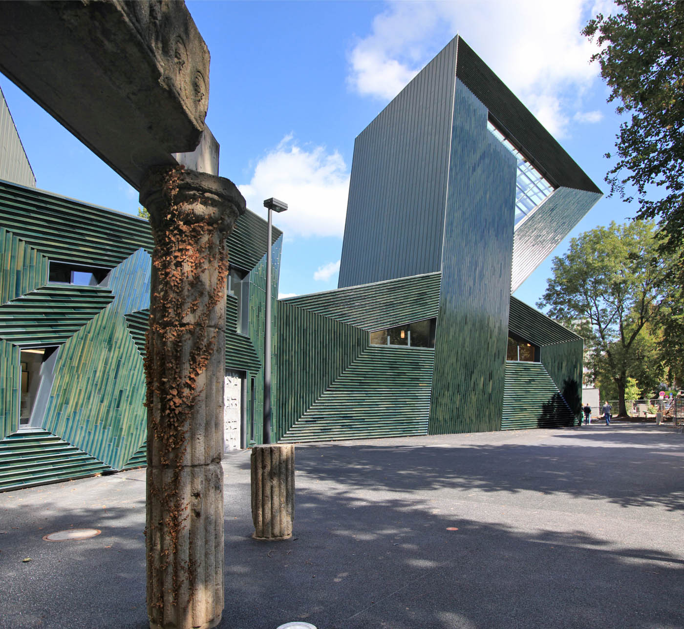 Synagogue Mainz: Exterior View